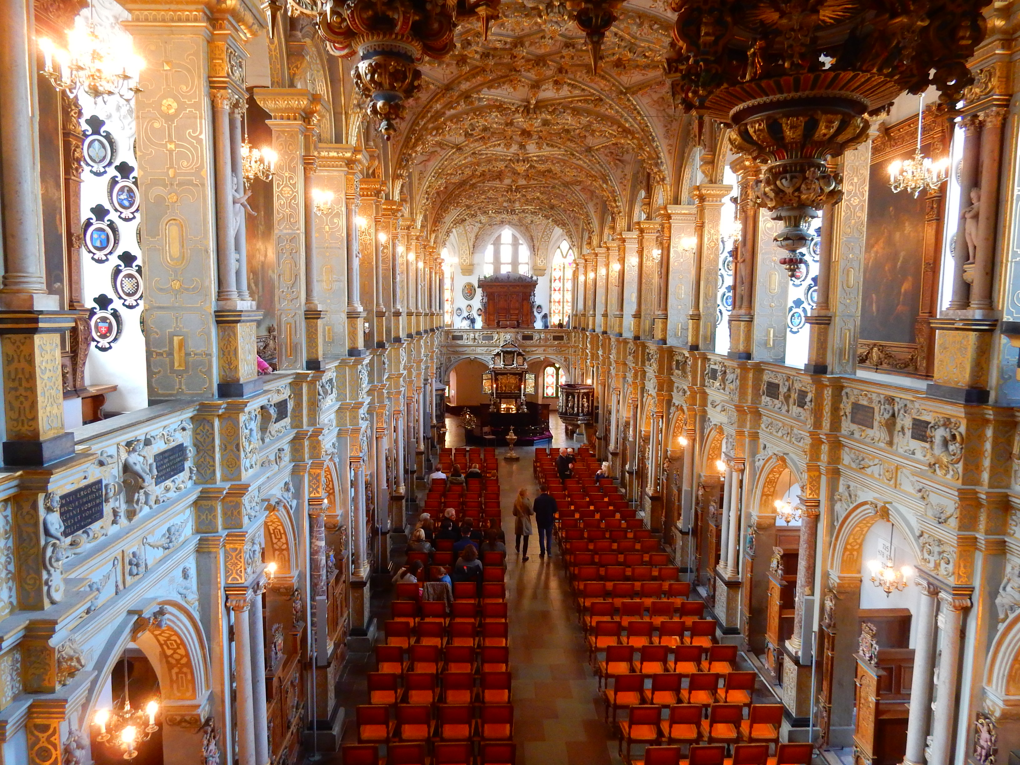 Chapel in Frederiksborg Castle, Hillerød, Denmark